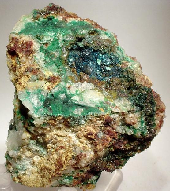 Clinoclase, Cornwallite, Olivenite, Quartz Locality: Wheal Gorland, St Day United Mines (Poldice Mines), Gwennap area, Camborne - Redruth - St Day District, Cornwall, England, UK (Locality at ) Size: 6.3 x 6.3 x 4.2 cm A classic, old-time and very rich Cornwall combination specimen from the famous Wheal Gorland of clinoclase, cornwallite and olivenite lining vugs in a brecciated, quartz matrix. Ex Richard Barstow Collection.